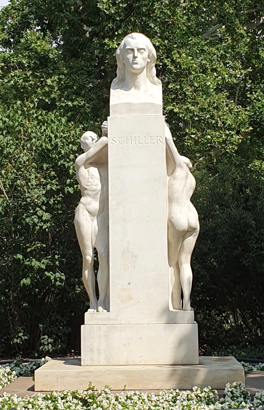 Schiller-Denkmal (Leipzig)